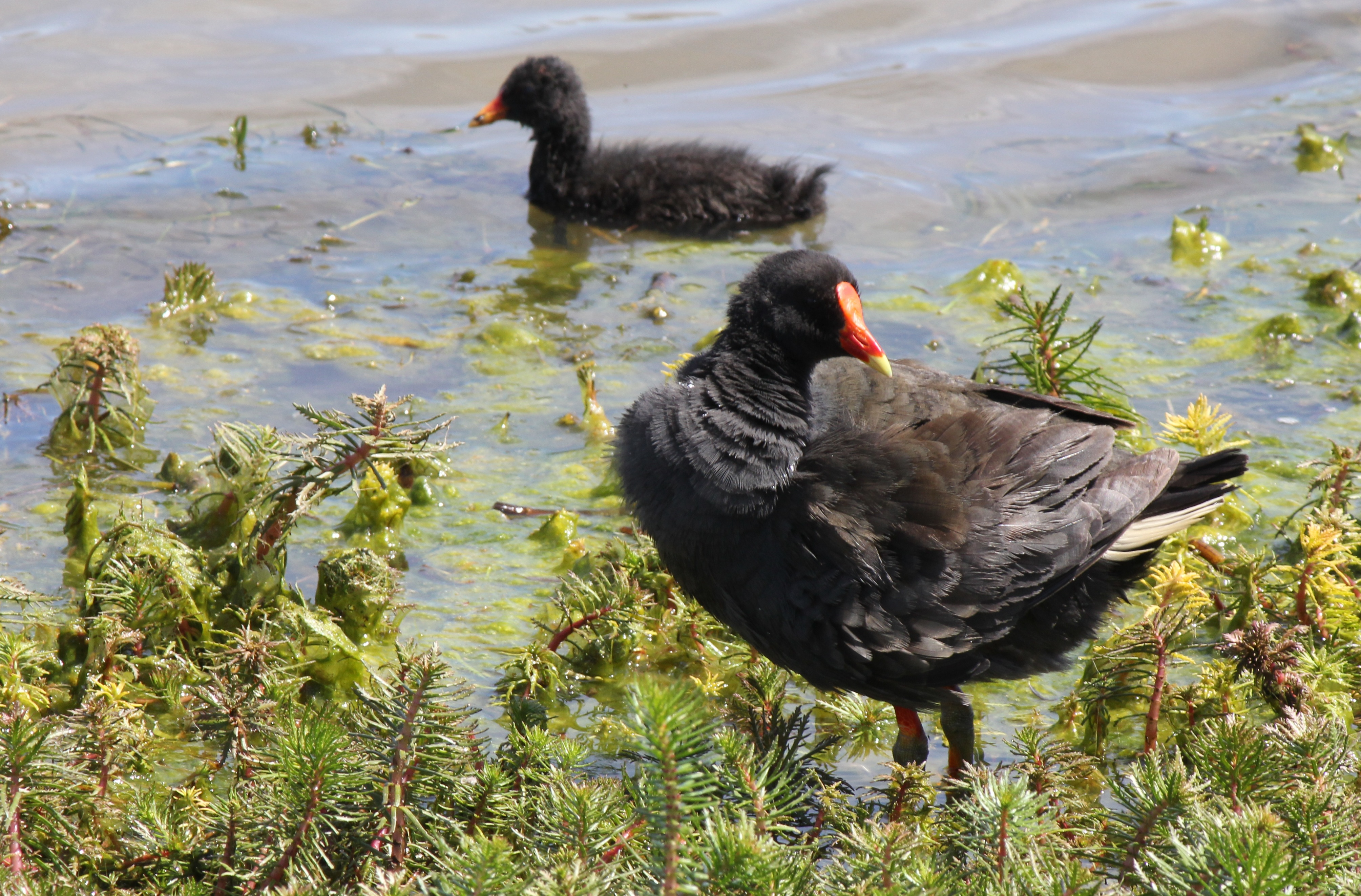 Dusky Moorhen (Gallinula tenebrosa) pictured in Victoria, Australia